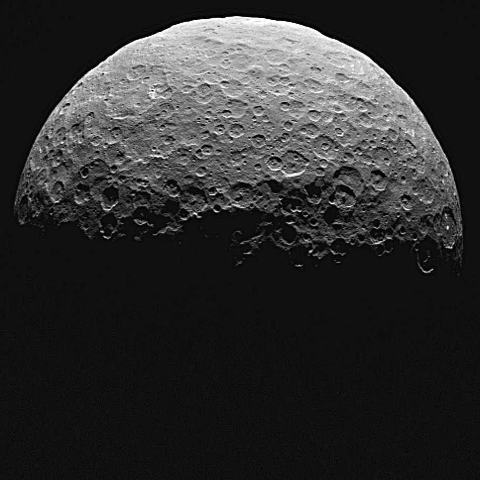 PIA19064: Settling in at Ceres STILL IMAGE ANIMATED IMAGE This animated sequence of images from NASA's Dawn spacecraft shows northern terrain on the sunlit side of dwarf planet Ceres. Dawn took these images on April 14 and 15 from a vantage point 14,000 miles (22,000 kilometers) above Ceres' northern hemisphere. The spacecraft was settling into its first circular orbit, called RC3 (for "rotation characterization 3"), which it will begin on April 23. The bright feature called "spot 5" by the Dawn science team -- actually two bright spots close together -- rotates into view at right in the last few frames. Dawn has now finished delivering the images that have helped mission planners maneuver the spacecraft to its first science orbit and prepare for subsequent observations. Image scale on Ceres is about 1.3 miles (2.1 kilometers) per pixel, compared to 1.9 miles (3.1 kilometers) per pixel in the optical navigation images taken on April 10 (see PIA19064). The sun-Ceres-spacecraft angle, or phase angle is 91 degrees here, compared to 131 degrees in the previous sequence. A processed still image from this sequence is also available. Dawn's mission is managed by JPL for NASA's Science Mission Directorate in Washington. Dawn is a project of the directorate's Discovery Program, managed by NASA's Marshall Space Flight Center in Huntsville, Alabama. UCLA is responsible for overall Dawn mission science. Orbital ATK, Inc., in Dulles, Virginia, designed and built the spacecraft. The German Aerospace Center, the Max Planck Institute for Solar System Research, the Italian Space Agency and the Italian National Astrophysical Institute are international partners on the mission team. For a complete list of acknowledgments